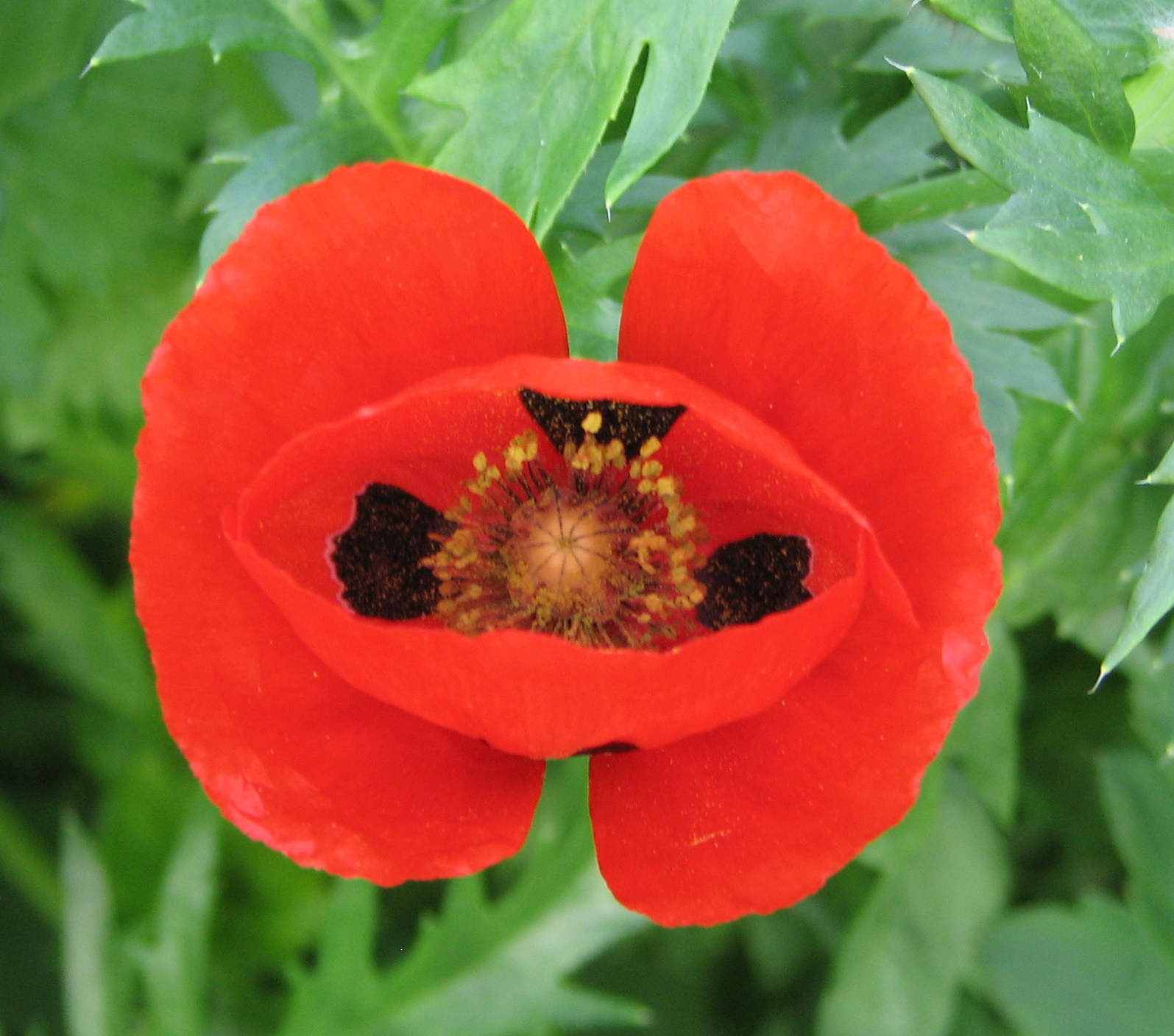 Green Paths, between Nesher - Yagur on Mount Carmel Israel. View from the path. Poppy In Mount Carmel.